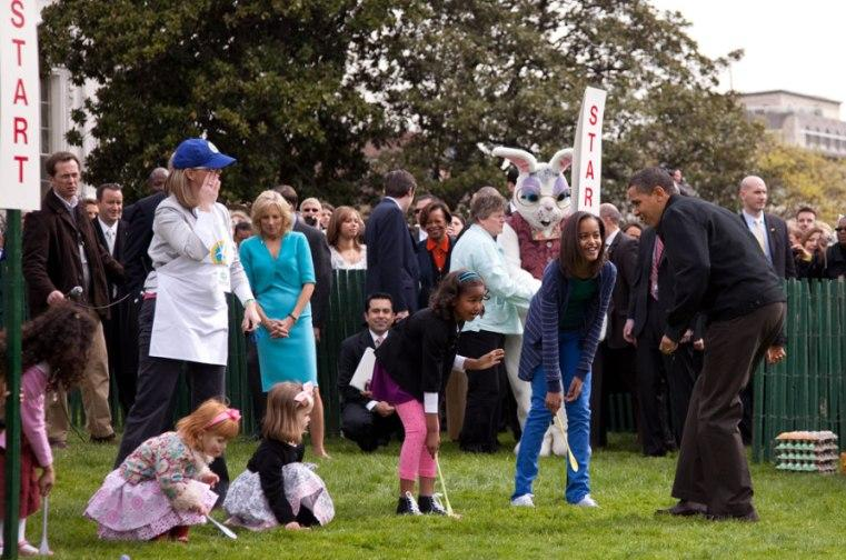 President Barack Obama is joined by his daughters Sasha and Malia to help start things off Monday, April 13, 2009, at the White House Easter Egg Roll.